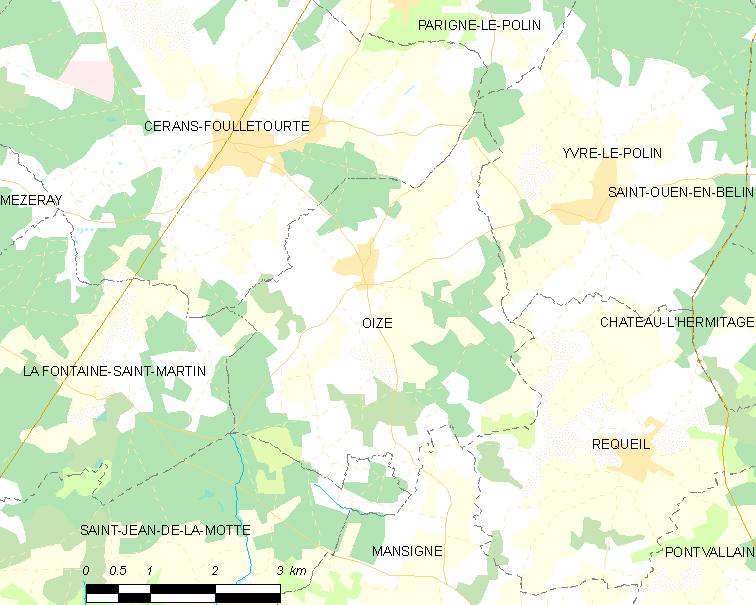 Map of French municipality